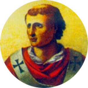 Portait of Pope John X in the Basilica of Saint Paul Outside the Walls, Rome